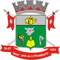 Coat of arms of Santana do Livramento